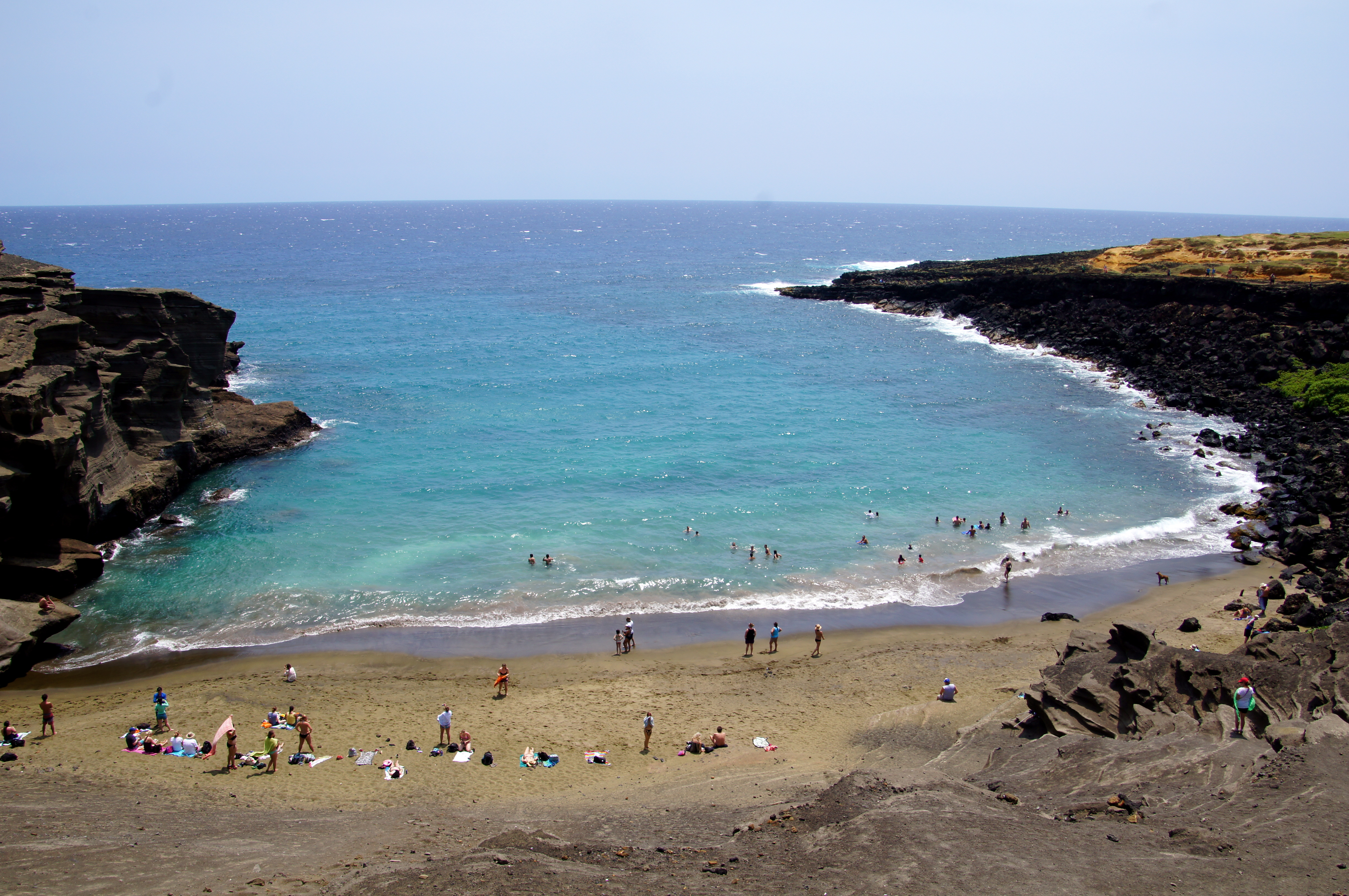 Climbing down to the beach requires a certain level of mobility. The reward is a refreshing swim after a long hike. Rides can be hired back at the parking area.